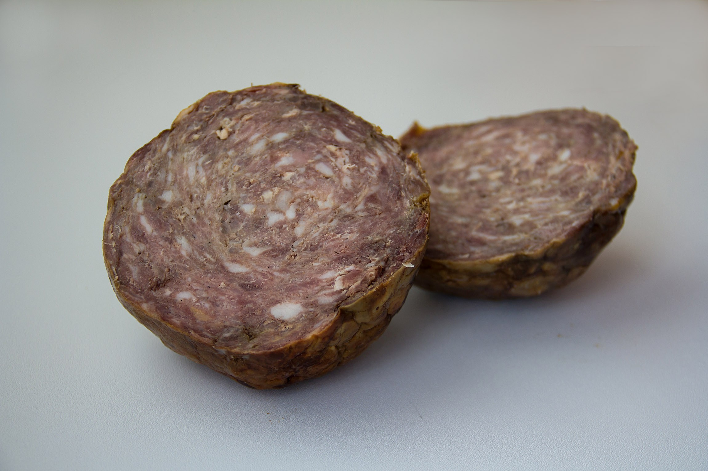 Shirtan (Shartan) - Chuvash national meat products.